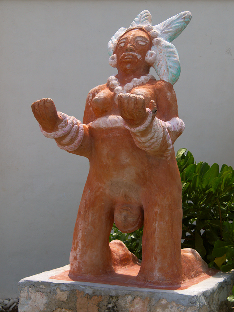 Statue of Mayan goddess Ixchel on Punta Sur, Isla Mujeres (Mexican Caribbean).